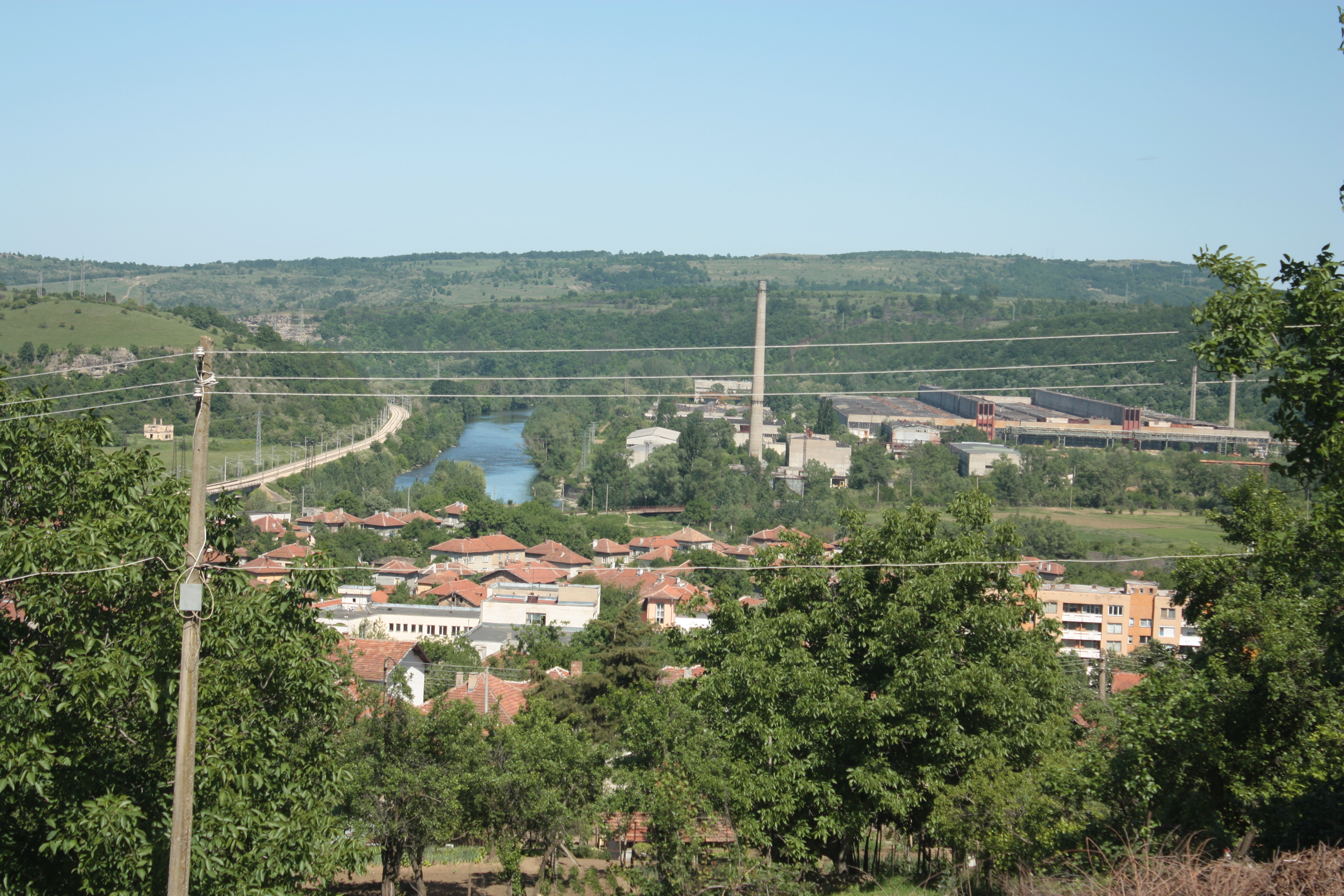 View to Roman, Bulgaria and river Iskar